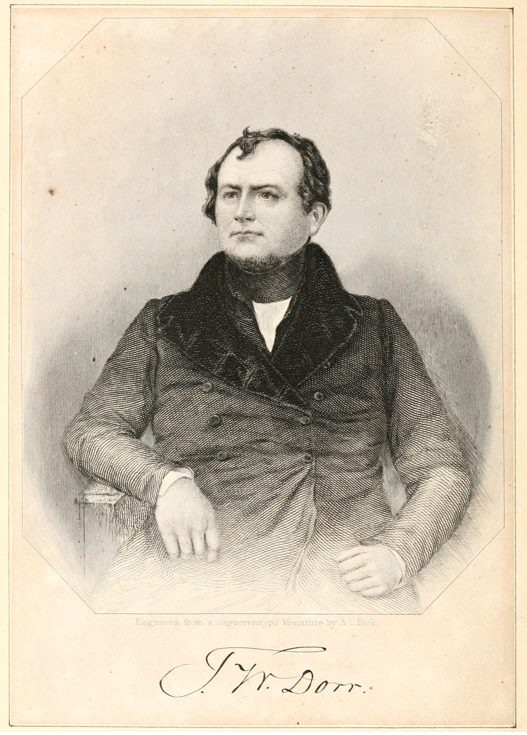 Thomas Wilson Dorr (1805 – 1854), extralegal Rhode Island governor